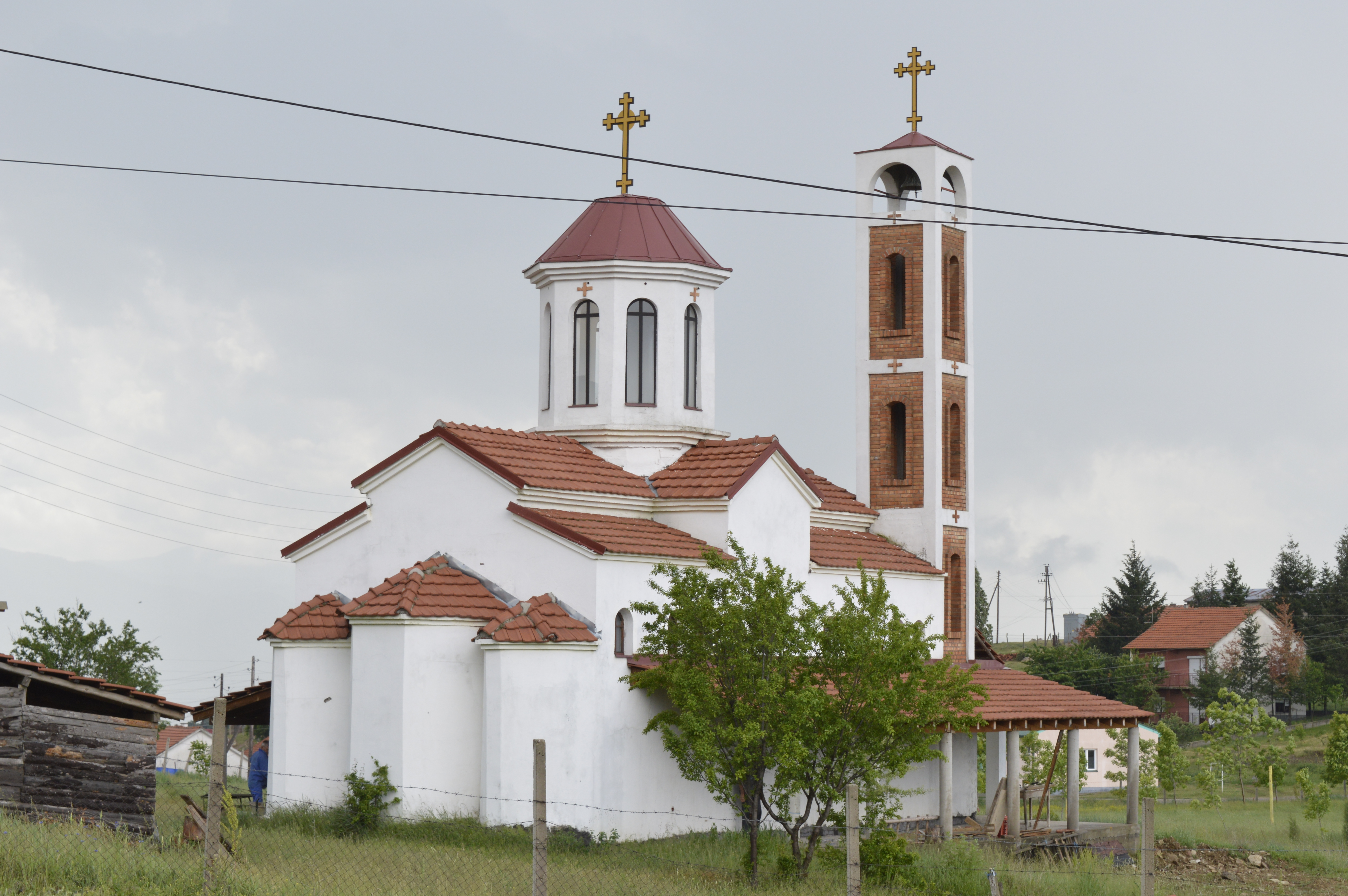 View of the Holy Trinity Church in the village Trsino